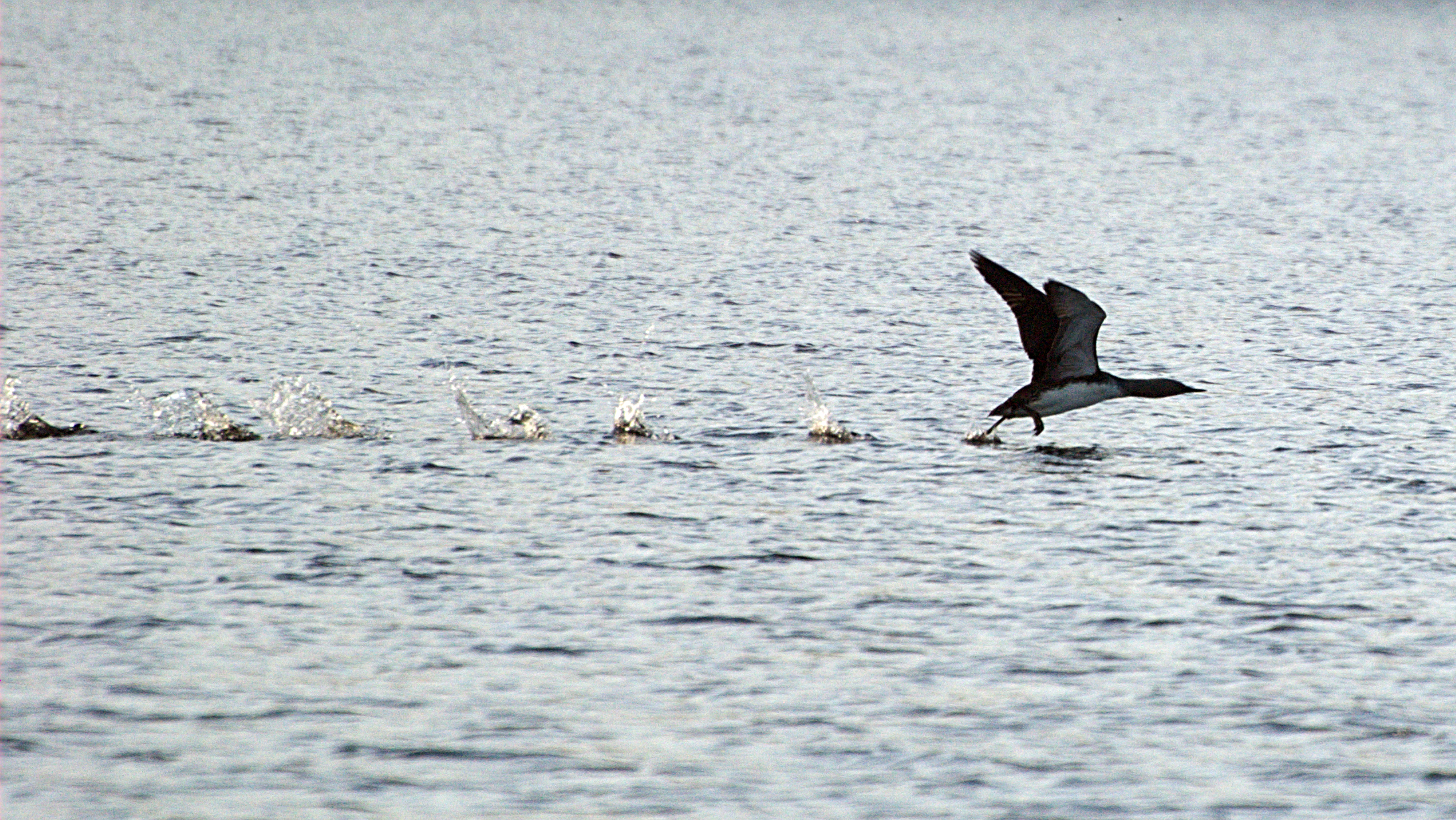 adult sv: storlom